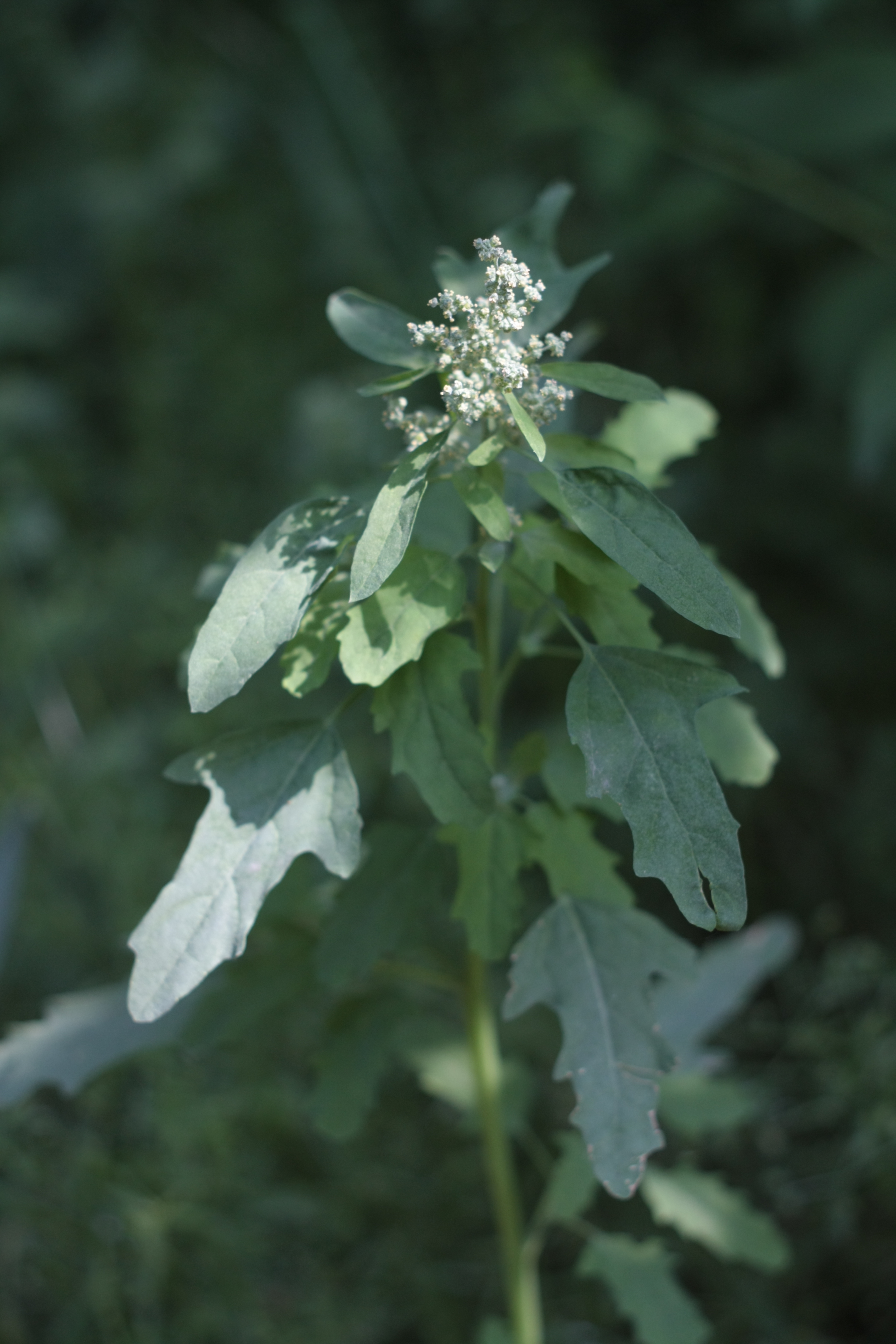 Chenopodium ficifolium in Bupyeong, Korea